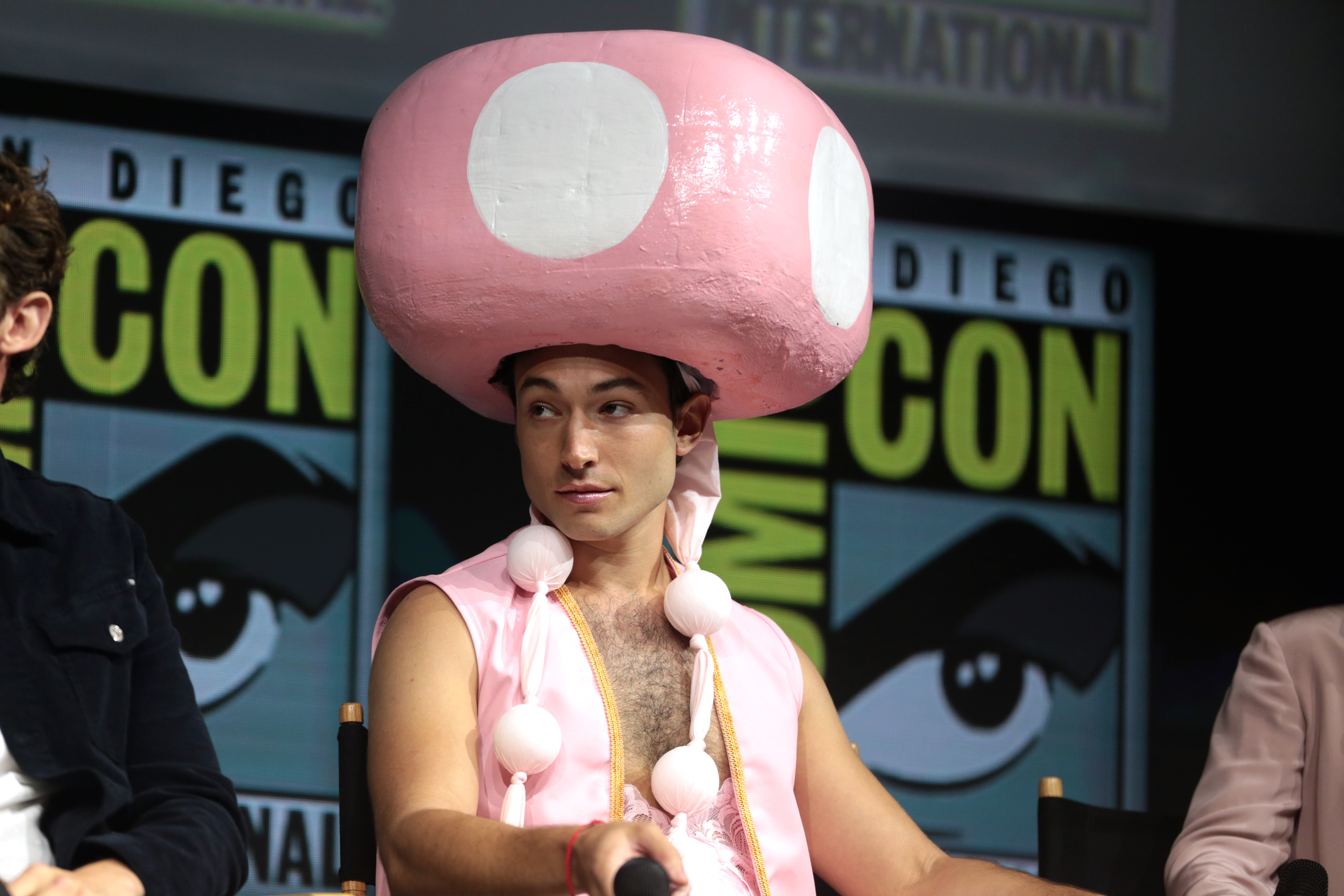 Ezra Miller speaking at the 2018 San Diego Comic Con International, for "Fantastic Beasts: The Crimes of Grindelwald", at the San Diego Convention Center in San Diego, California.